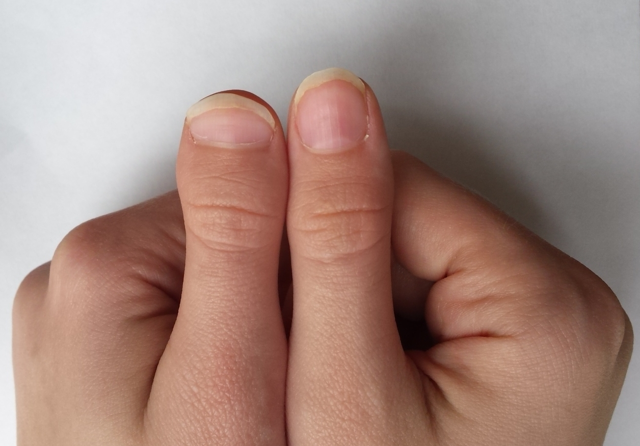 Brachydactyly type D left thumb, woman 15 years